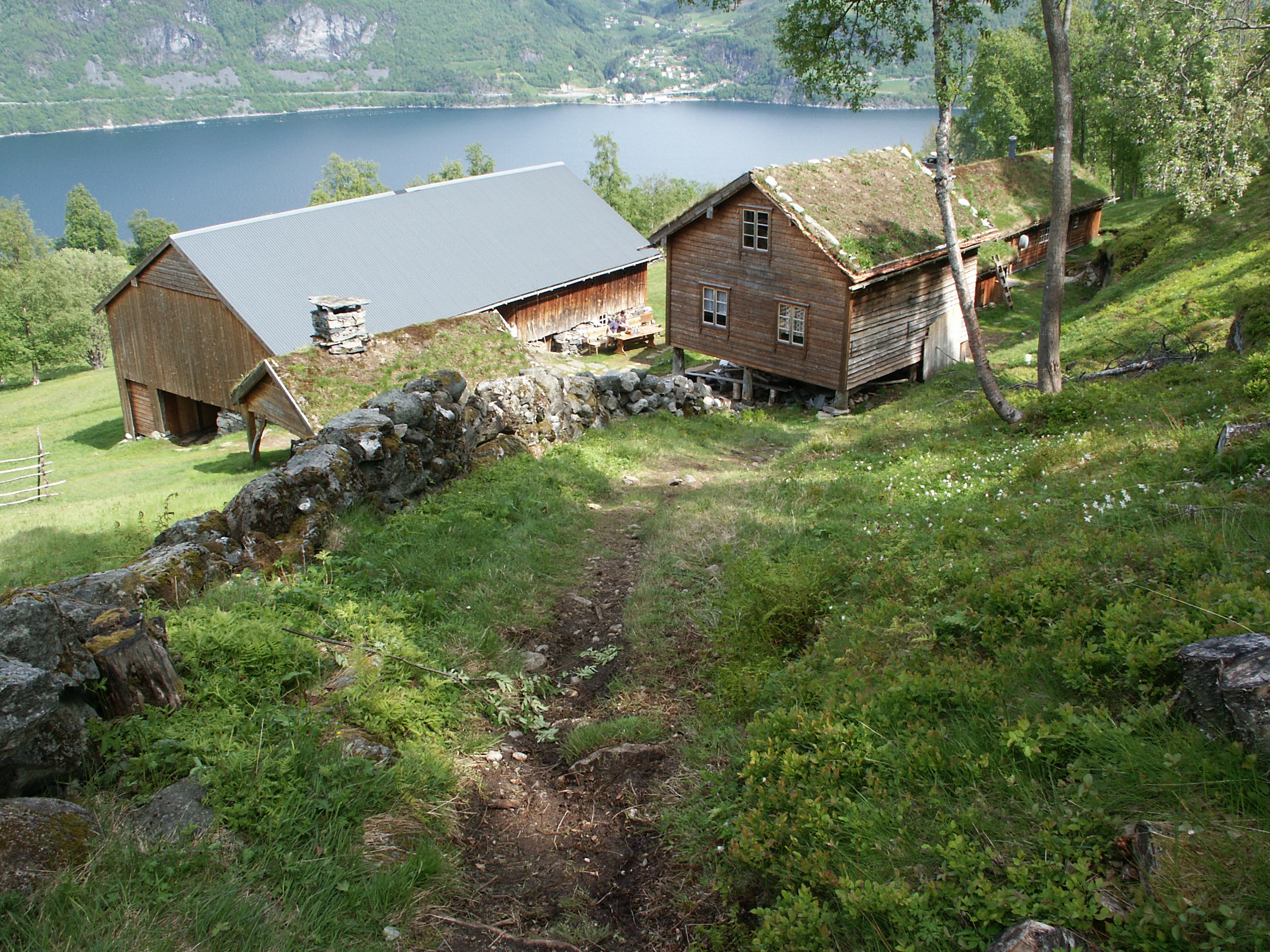 Ytste Skotet farm, access from the hillside above, Skotet, Storfjorden, Sykkylven municipality, Møre og Romsdal county, Norway. Photo: Frode Inge Helland